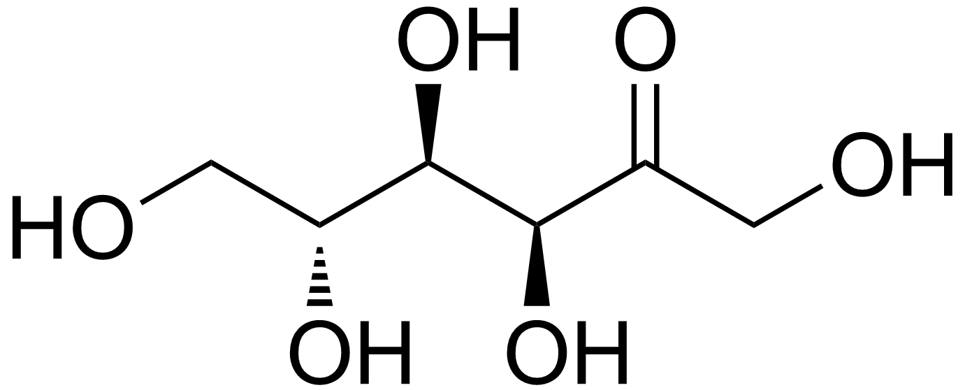 The straight-chain for of D-fructose, as represent at CAS Common Chemistry.